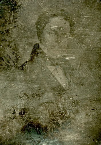 Benjamin Wegner, Norwegian industrialist. Daguerreotype by O.F. Knudsen, 1850.